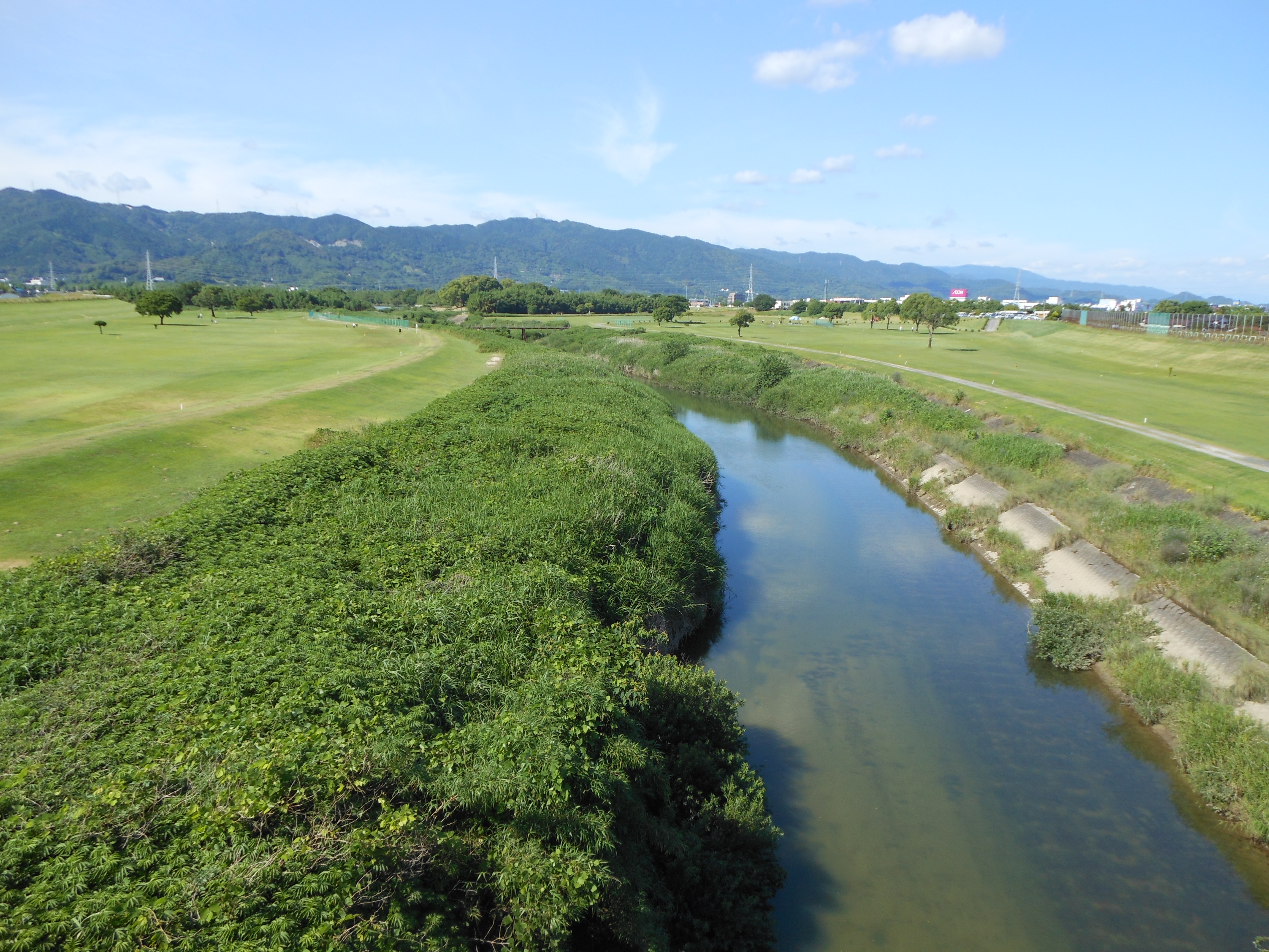 The Kase River, from the northward of Watase-bashi Bridge in Saga, Saga.